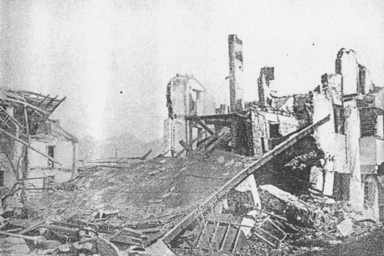 Wörgl was partly destroyed during World War II. in 1945.